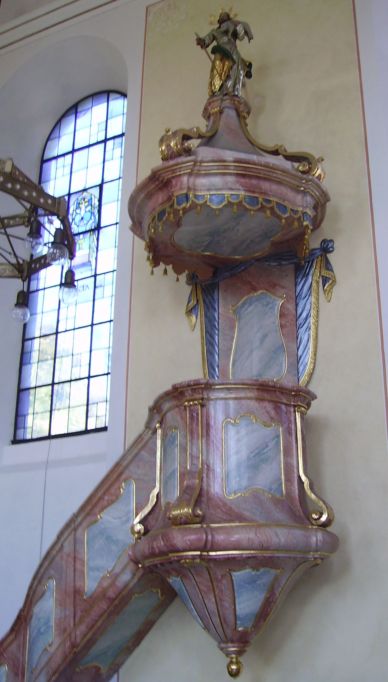 view of Maudach, part of Ludwigshafen, Germany